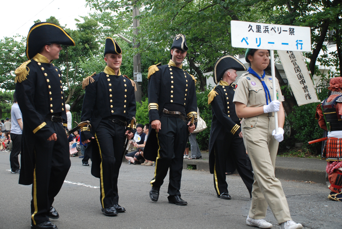 KURIHAMA, Japan (July 12, 2009) Sailors from Fleet Activities Yokosuka, dressed as members of the official party of Commodore Matthew C. Perry during his arrival to Japan, march in the Tokyo Jidai Matsuri Parade in Asakusa. The Tokyo Jidai Matsuri celebrates the history of Tokyo, starting from the beginning of the Edo period to the westernization of Japan following the arrival of Commodore Matthew C. Perry and his fleet of black ships. (U.S. Navy photo by Mass Communication Specialist Dominique Pineiro/Released)